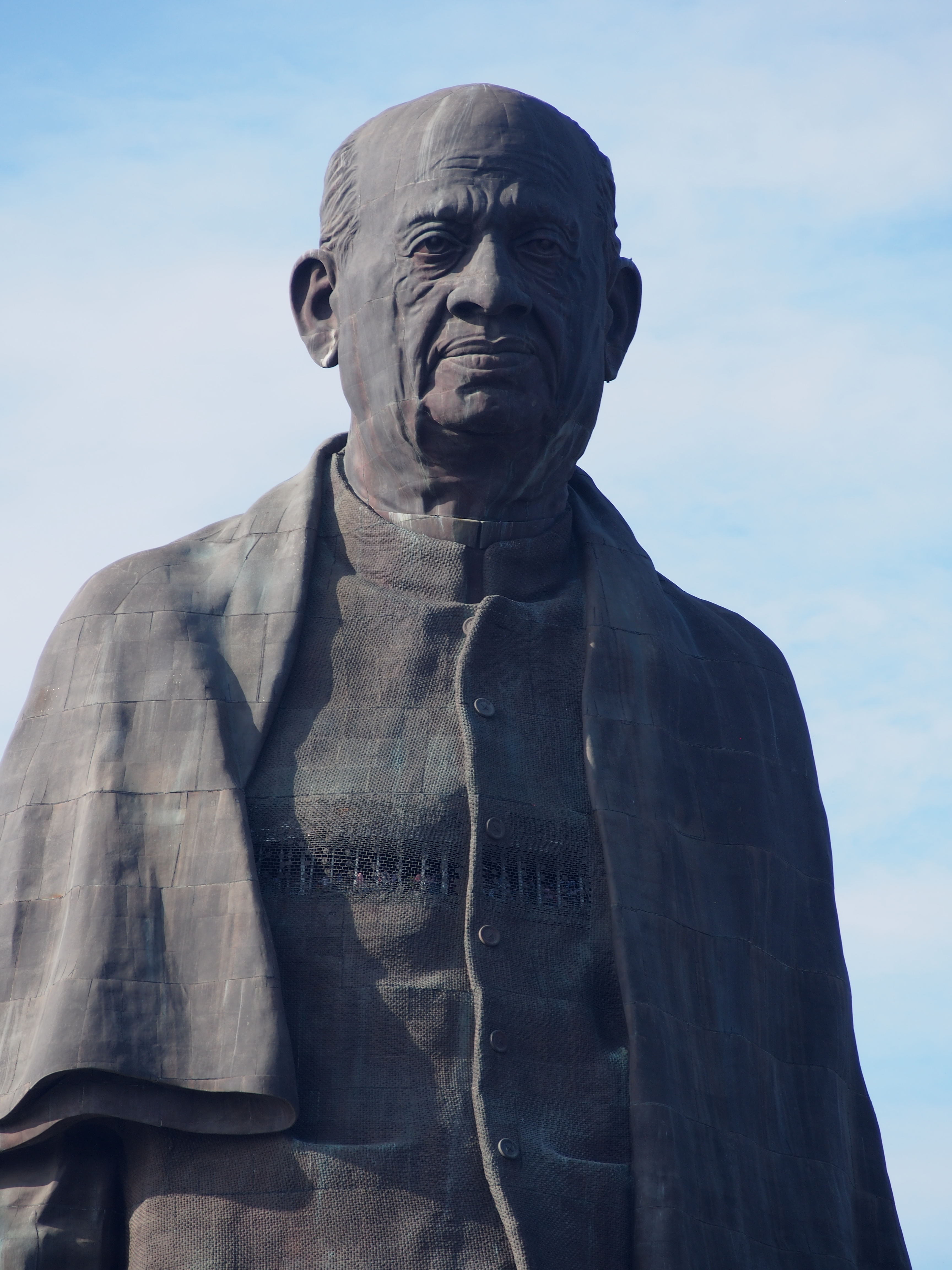 Statue of Unity - Close Shot from the other bank of Narmada